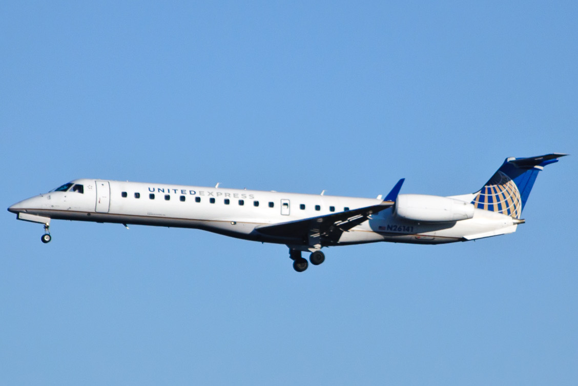 I am visiting the Udvar-Hazy Center, the annex for Smithsonian National Air and Space Museum located on the grounds of Dulles Airport. It is also an excellent place for planespotting - especially for aircraft landing on 1R. Due to the bitter cold outside, this photo was taken inside the museum's tower, so there is a bit of loss in picture quality. Acey 5944 arrives from Nashville. N26141, Embraer ERJ-145XR